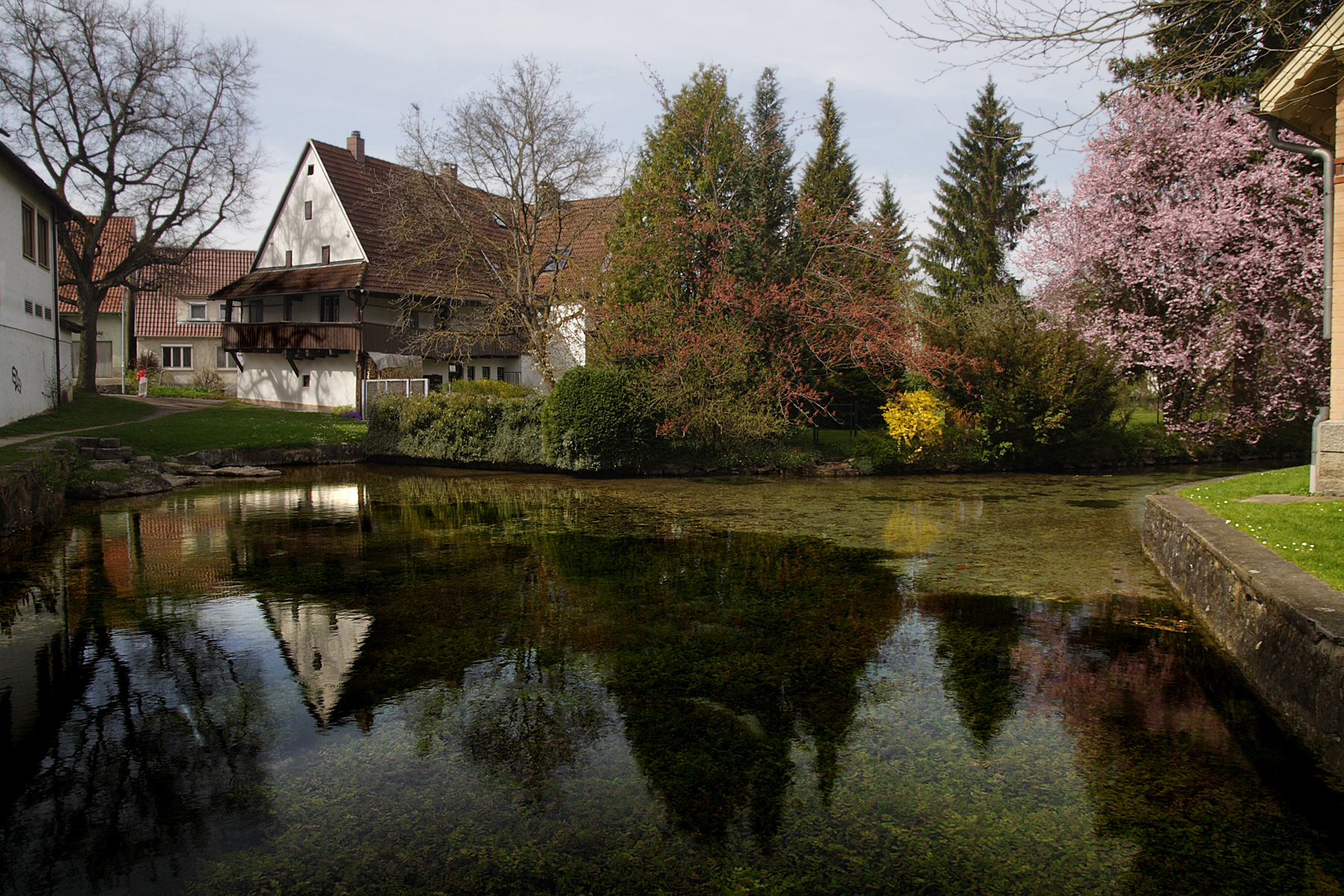 karst spring “Löffelbrunnen“ in the center of Langenau, Swabian Alb (for the karst spring of river Nau in Langenau see the photo: Image:Nau_Karstquelltopf_Langenau_Schwaebische Alb.jpg). The area next after Ulm/Langenau is a permanent wetland of ca. 7,5x15 km, devided by the border Baden-Württemberg and Bavaria. In this area the meltwater of the pleistocene river Upper Danube transported gravel, over time forming gravel beds of enormous size, functioning as a groundwater reservoir, which kept the surface a wetland. This kind of “full water tub” contains the karst waters of the southeastern Swabian Alb, mainly from river Lone and its dry valley-tributaries. This river network meanwhile percolates ca. 80% of its precipitation underground to the wetland area of the Danube. Four large karst springs in Langenau, the biotope/geotope]/natural monument Grimmensee, the Naturschutzgebiet “Langenauer Ried”, „Leipheimer Moos” and “Gundelfinger Moos” are legally protected.